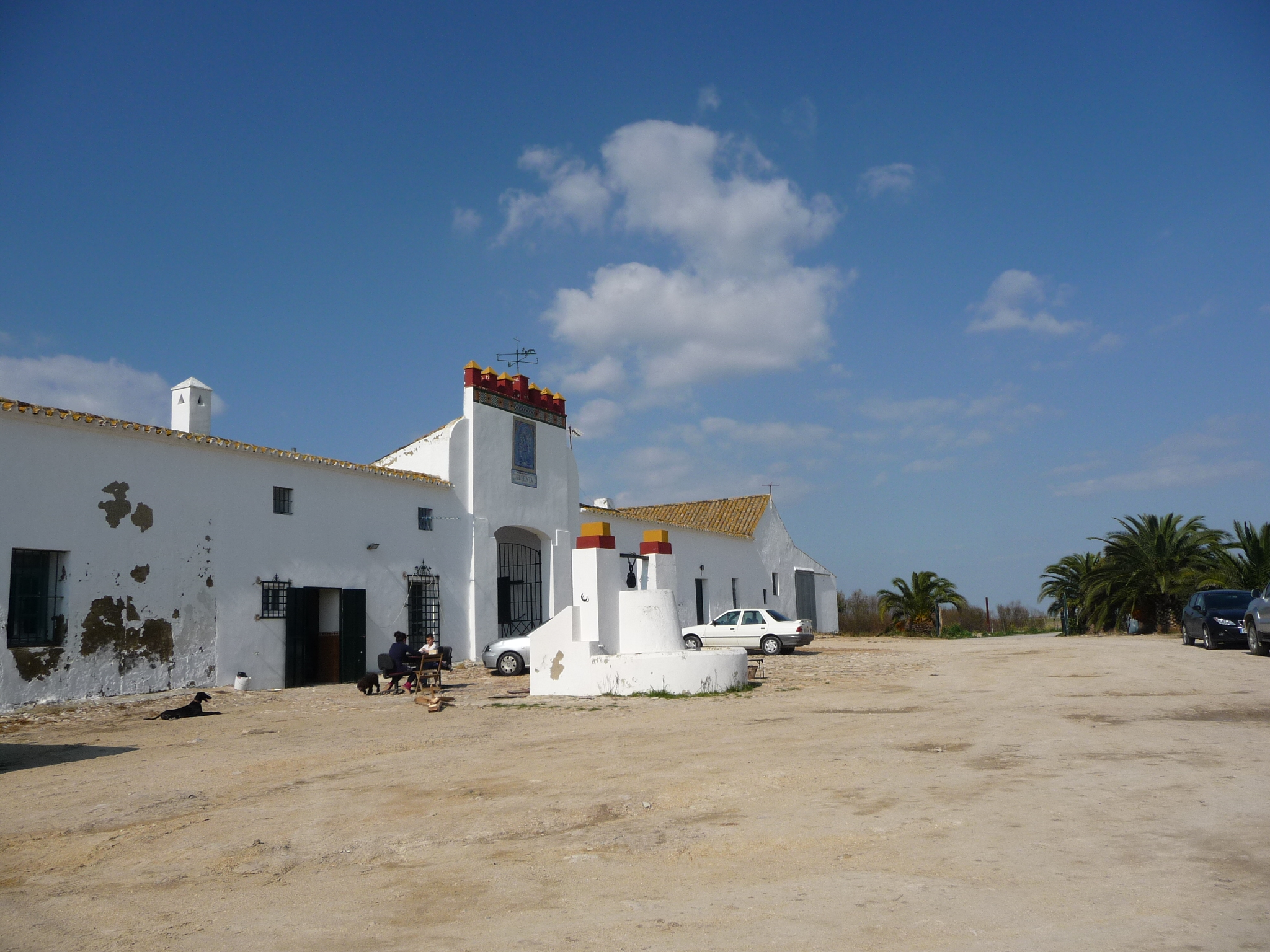 Cortijo de Alventu in Trebujena (Andalusia, Spain)